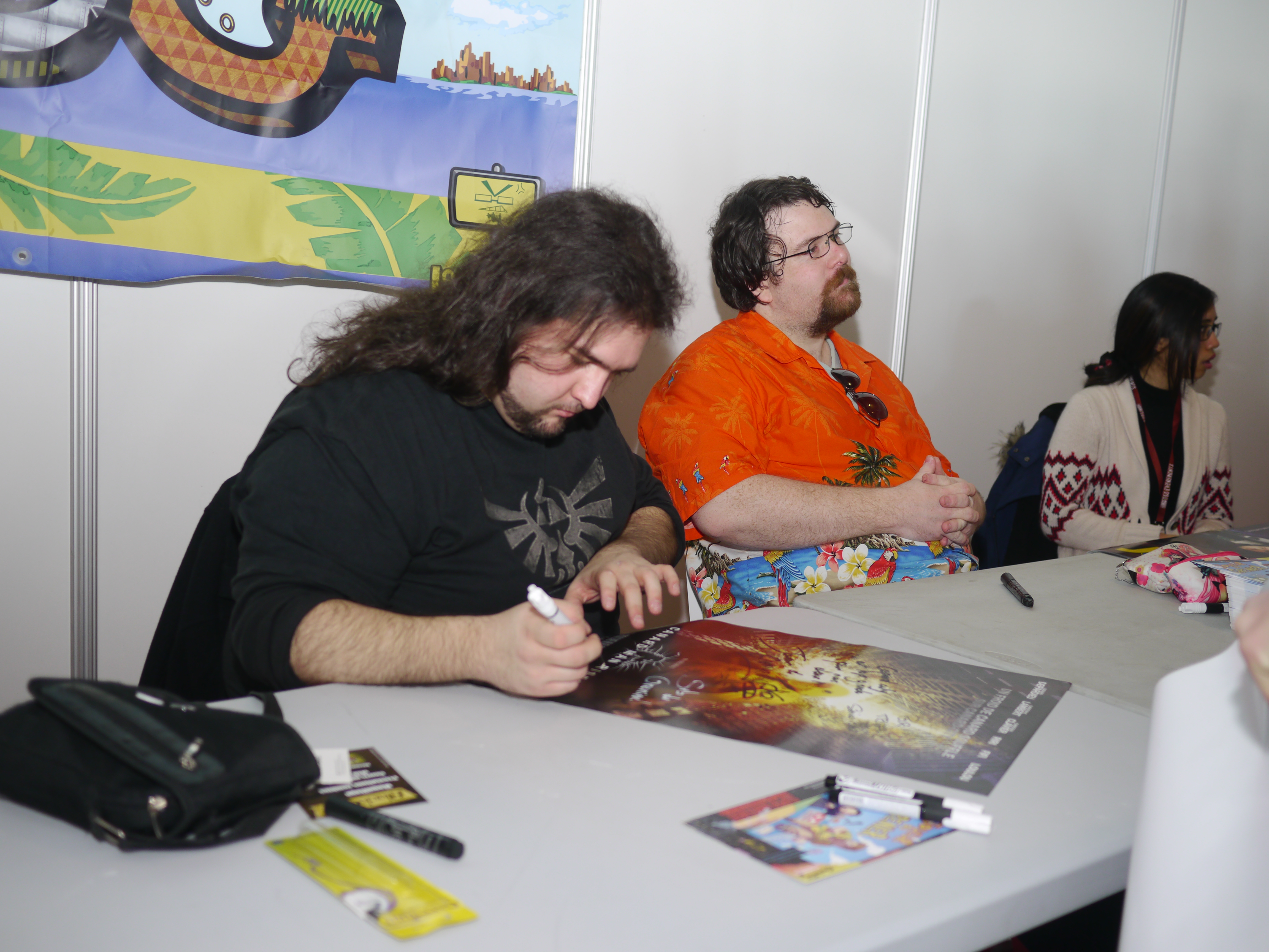 Monaco Anime Game Show Festival; 2013